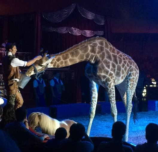 Richter József Jr. and Zambesi perform at the Hungarian National Circus.